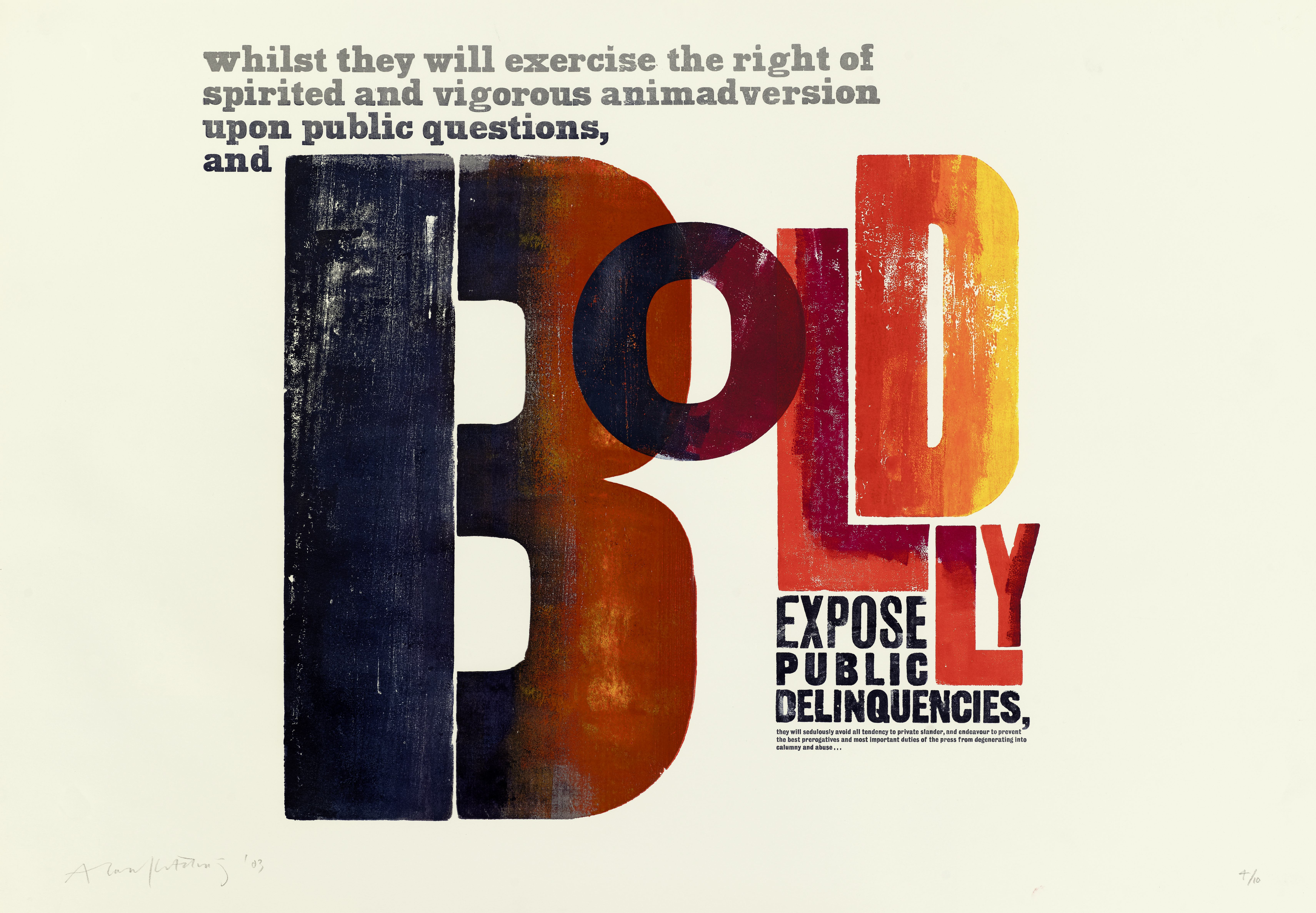 Part of a mural for The Guardian newspaper at the lobby of the old Guardian building on Farringdon Road.